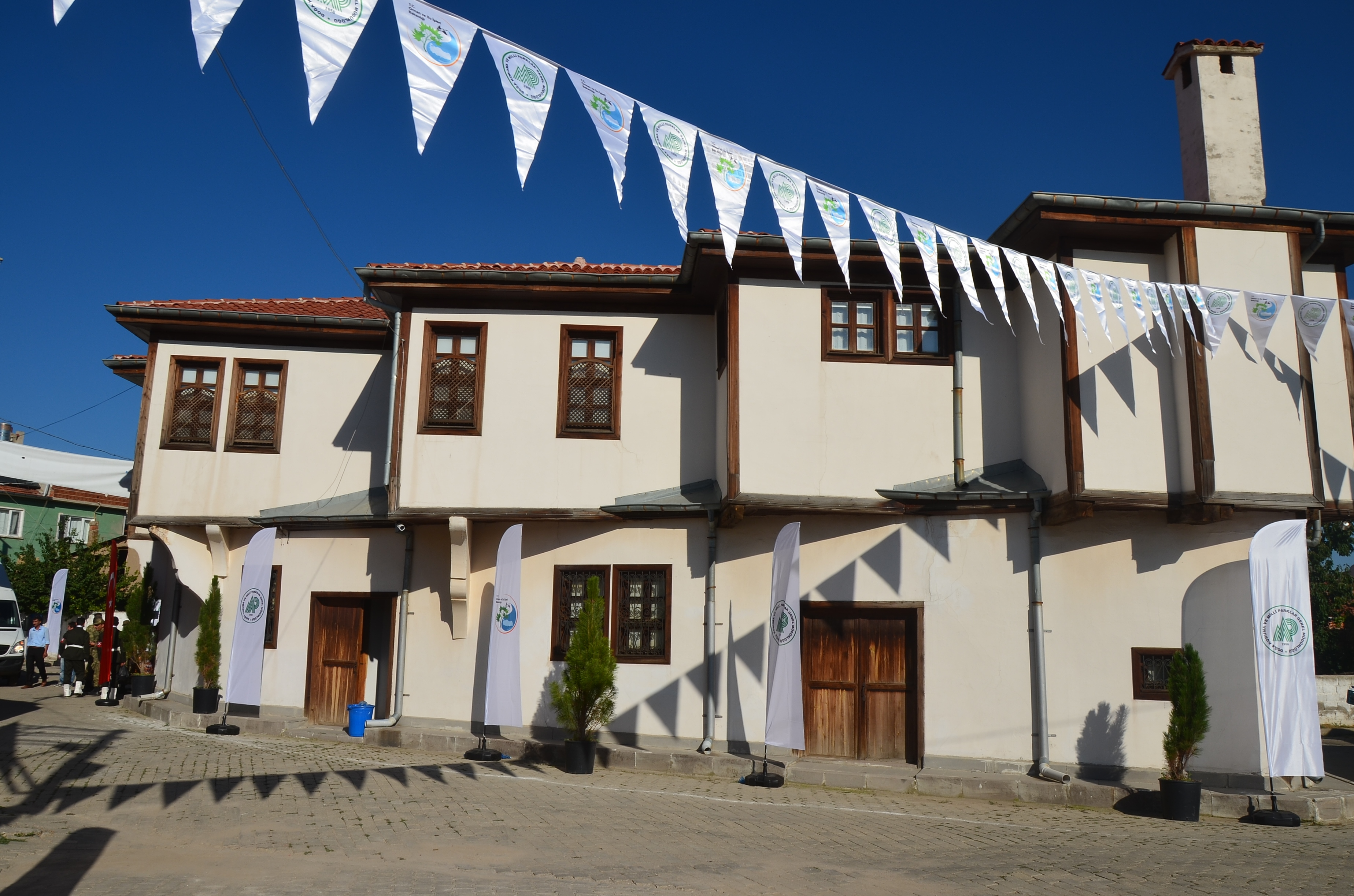 Atatürk's House Museum in Şuhut, Afyonkarahisar, Turkey. The house was used by Commander-in-Chief Mustafa Kemal (Atatürk) in the eve of Great Offensive in 1922.